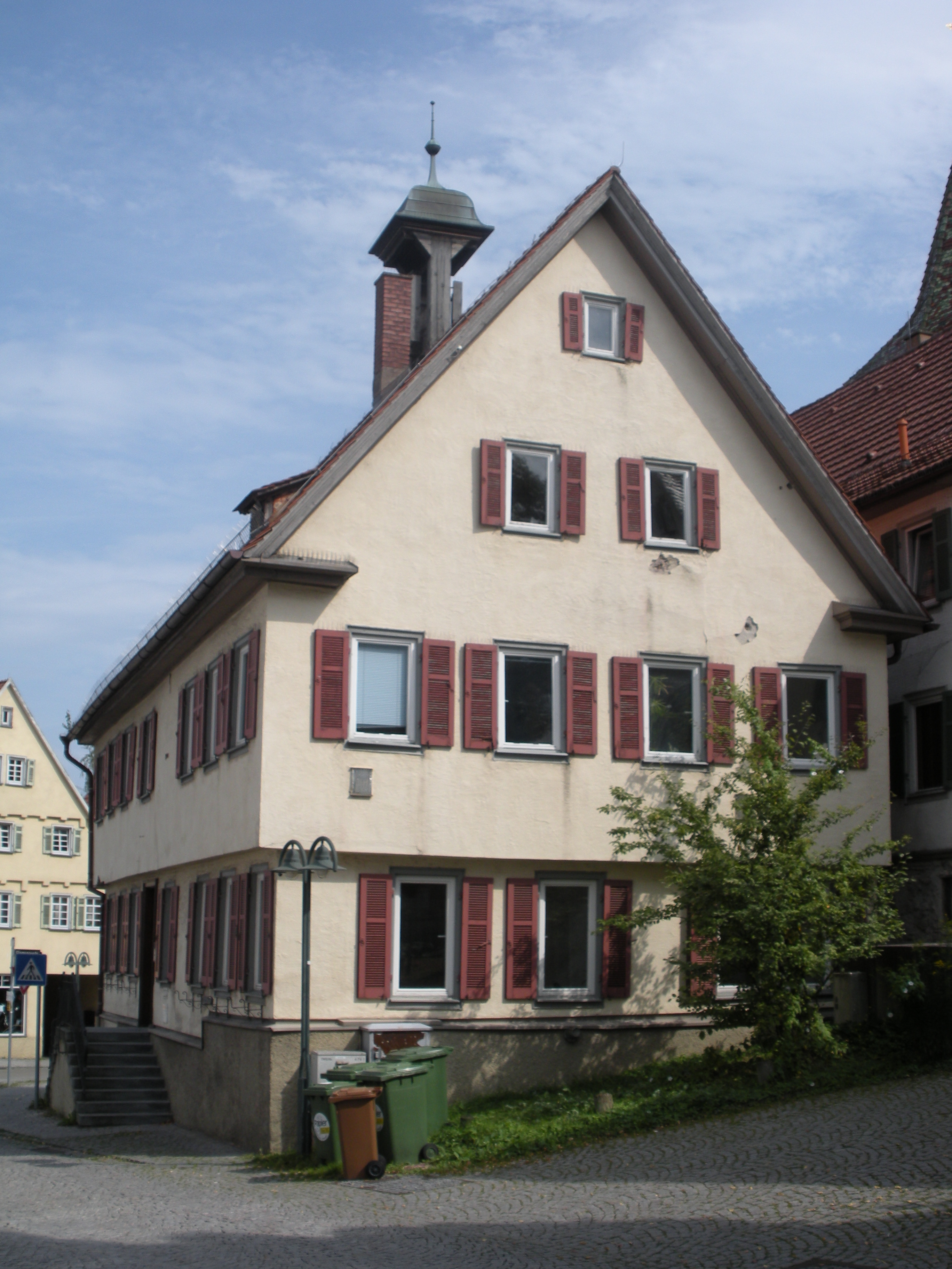 Old townhall in Stuttgart-Weilimdorf